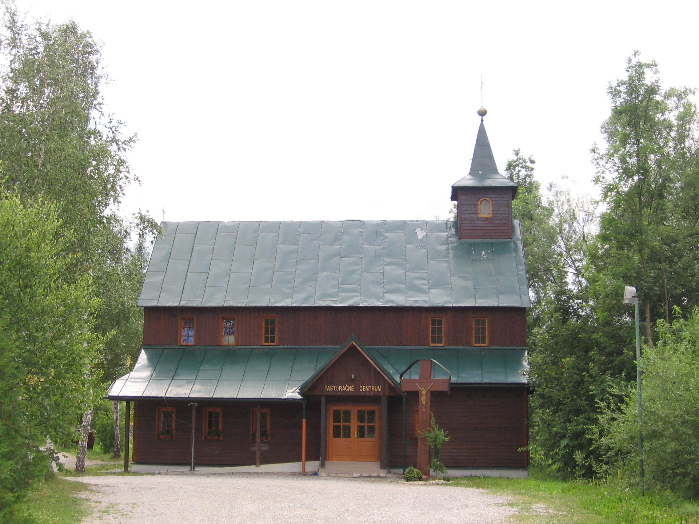 Old, former church in Korňa